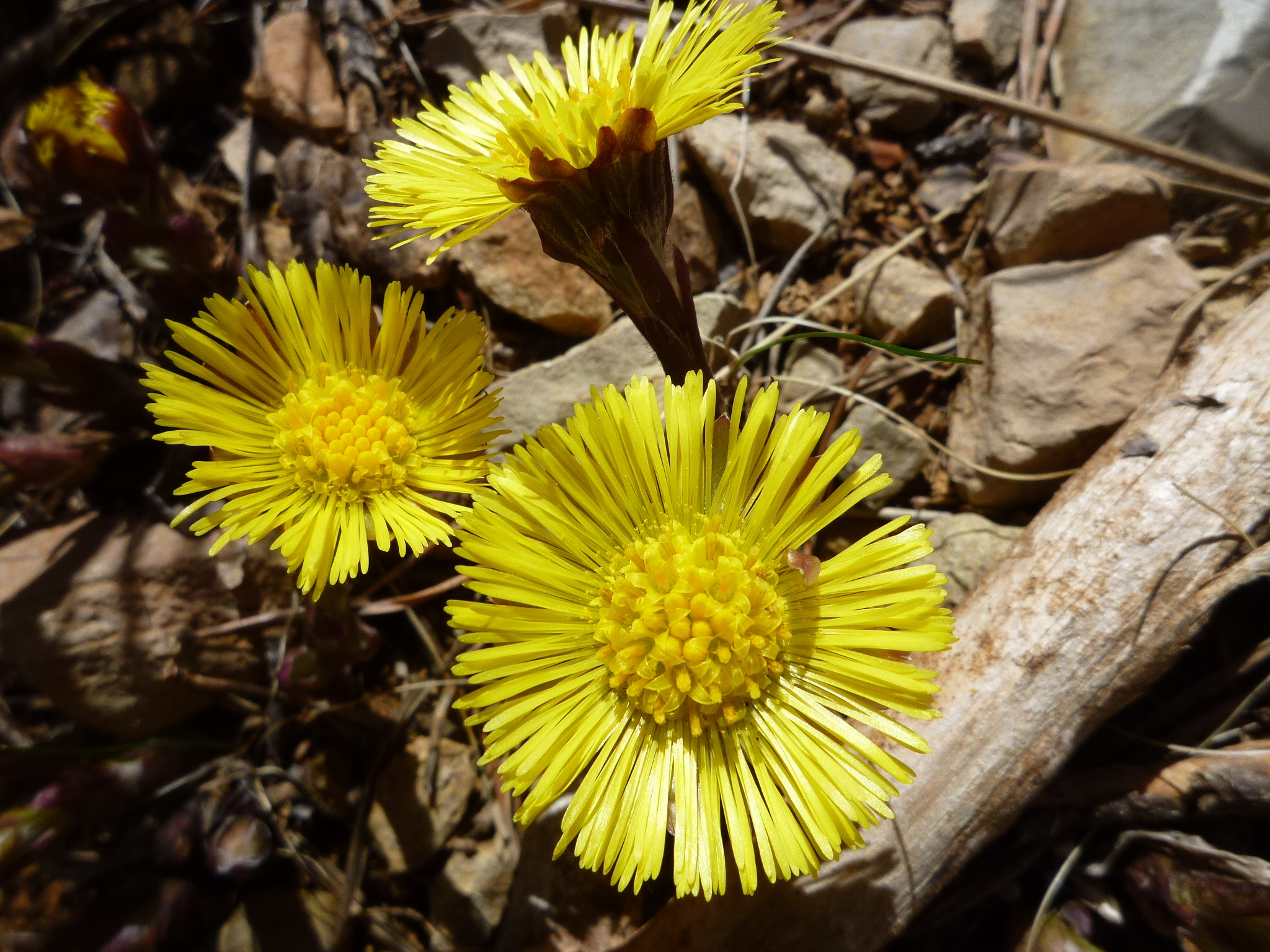 Tussilago farfara. In la Coma i la Pedra (Solsonès - Catalunya). To 1.400 m. altitude